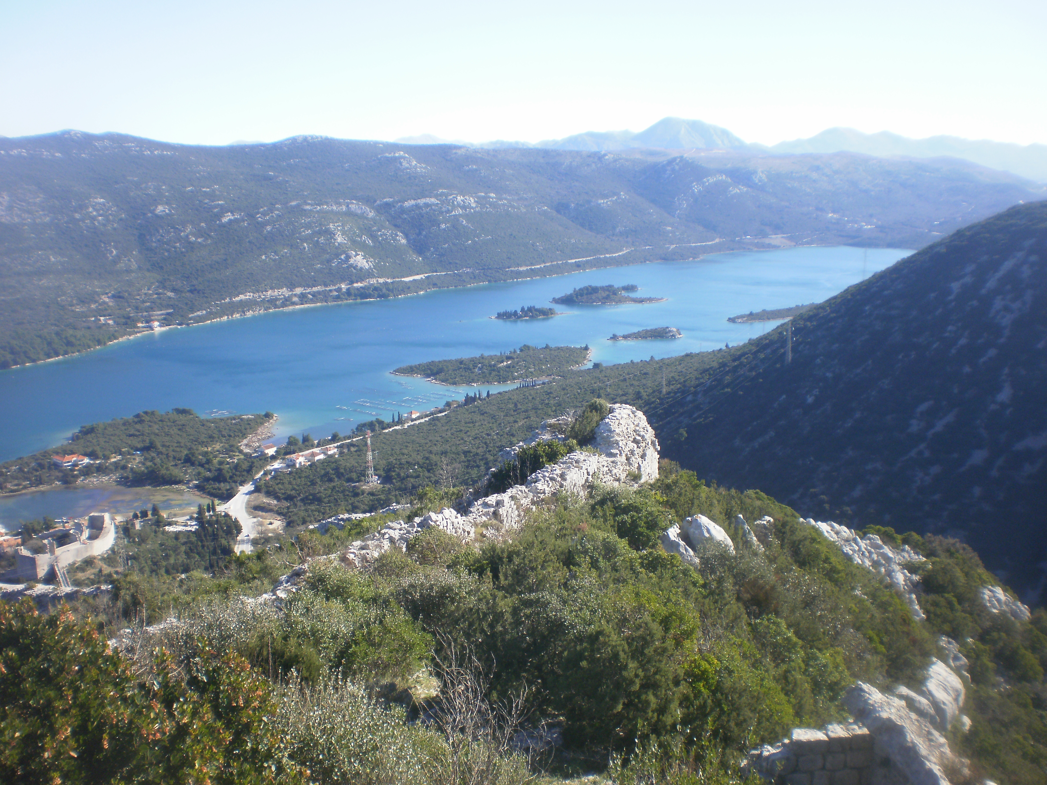 Bay of Mali Ston OLYMPUS DIGITAL CAMERA